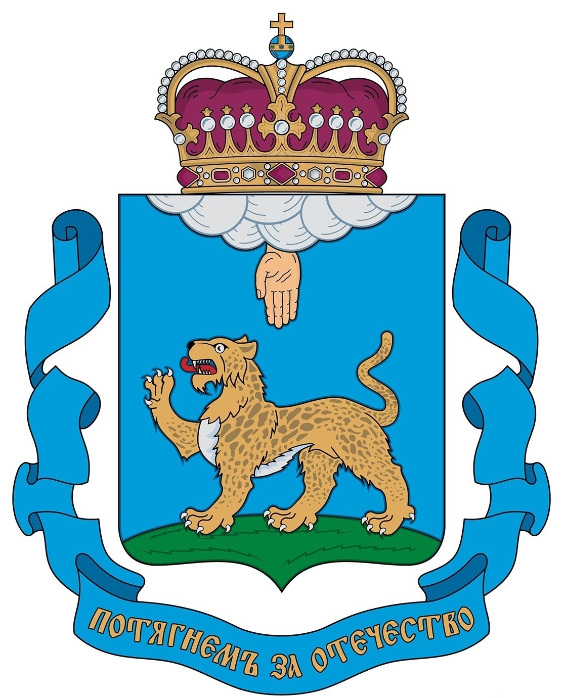 Coat of arms of Pskov region (2018).